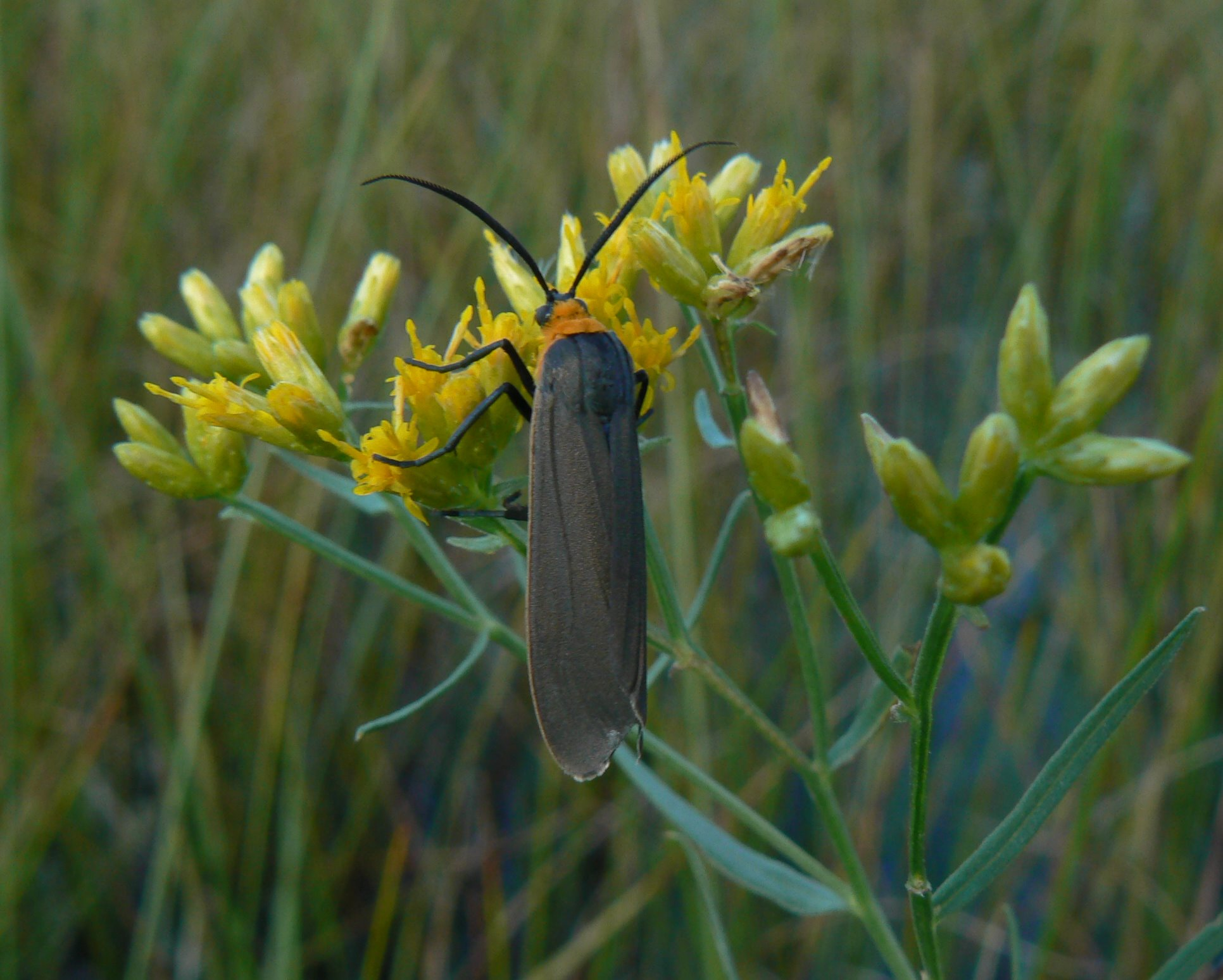 This guy was using a tongue as long as his antenna to feed from these yellow flowers. I think I also saw one of their caterpillars nearby. Yellow-collared Scape Moth - Hodges# 8267 (Cisseps fulvicollis)